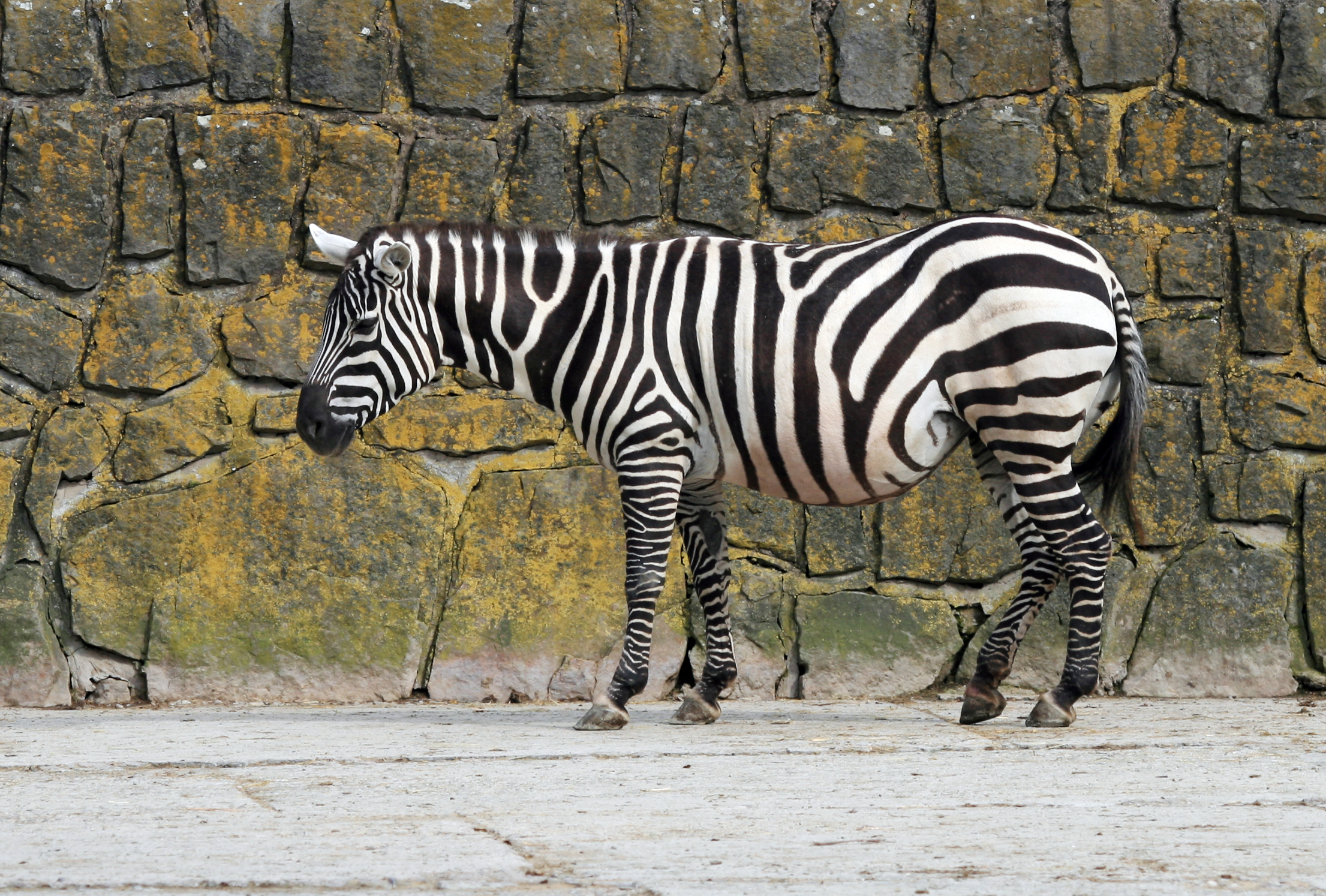 Burchell's Zebra Equus quagga burchellii in ZOO Dvůr Králové, Czech Republic